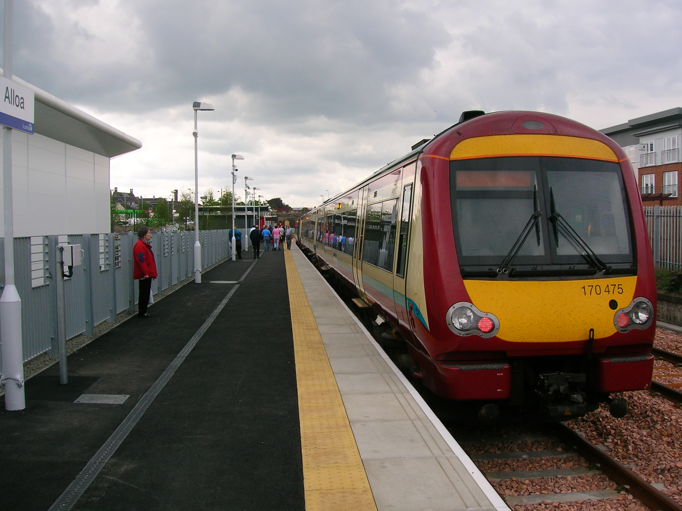 Alloa railway station looking towards Sterling.